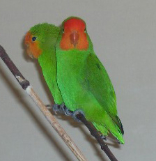 Red-faced Lovebird (Agapornis pullarius), a female and male.